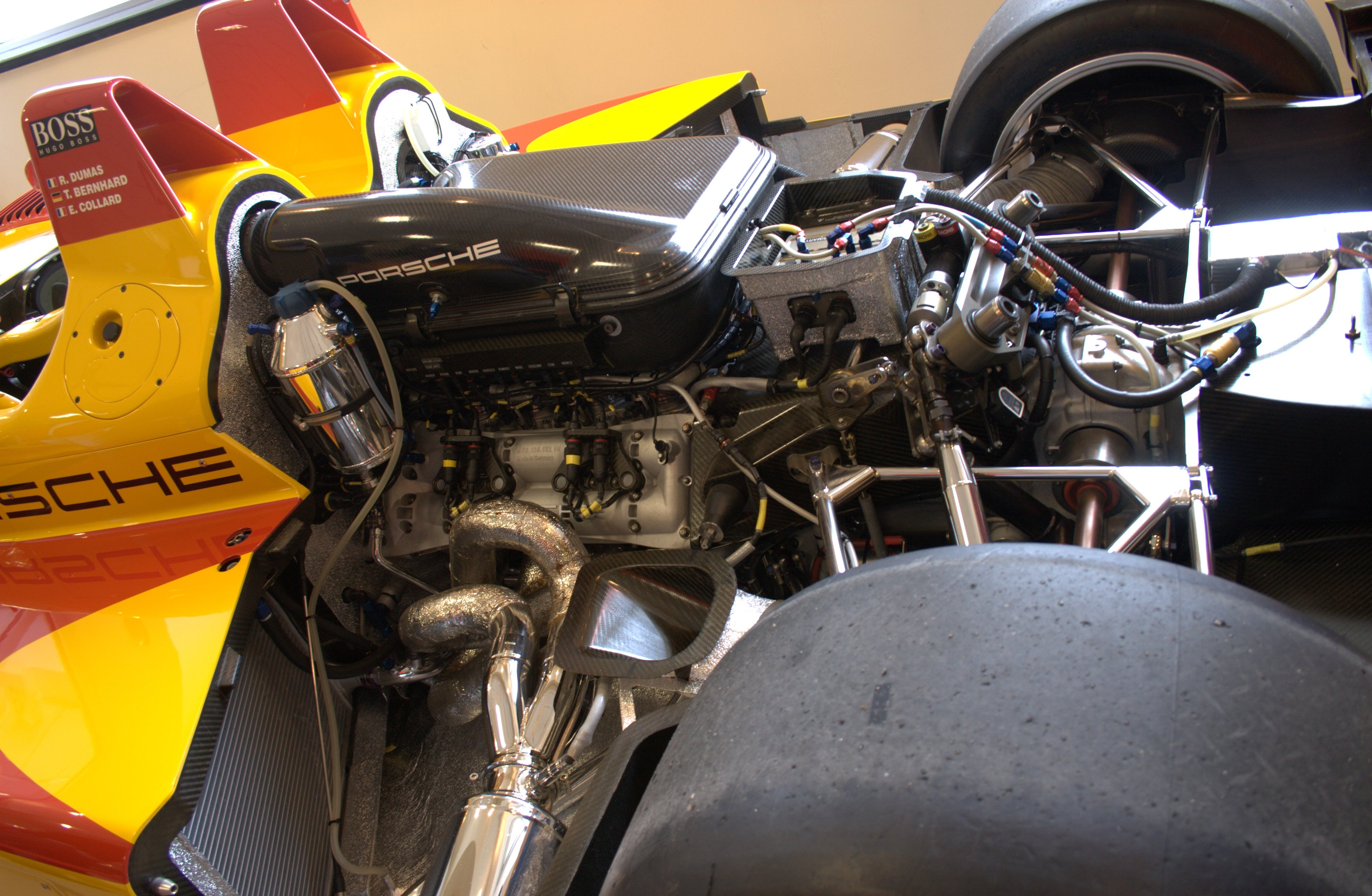 Porsche 9R6 RS Spyder - engine (MR6), gearbox (GR6) and rear axle.